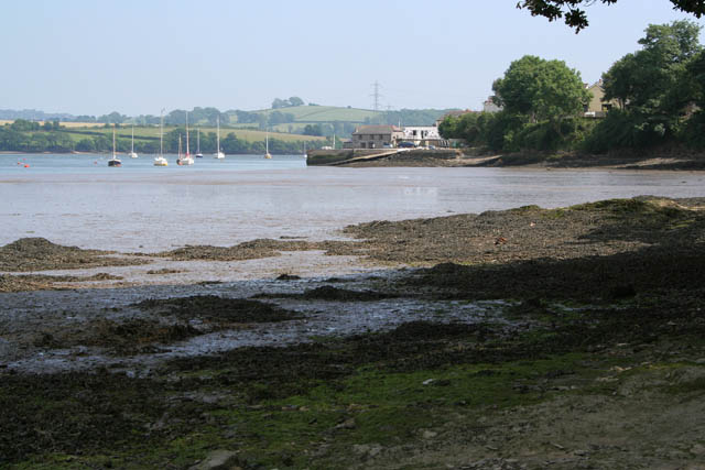 River Tamar, Cargreen Looking down stream along the shoreline footpath at low tide. The mud flats and shingle shore forms part of the Tamar Estuary Nature Reserve. The Devon side of the river in SX4462 is in the distance. The building in the centre of the photograph is the Crooked Spaniards Inn in Cargreen and is accessible by this footpath at low tide.